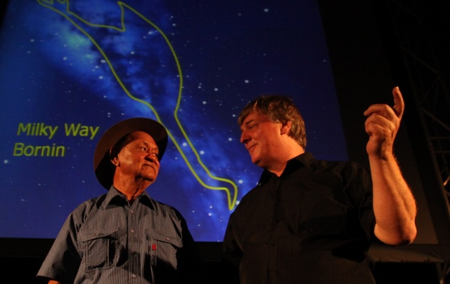 Ray Norris with Wardaman elder Bill Yidumduma Harney at the "First Astronomers", Darwin Festival & Science Week, August 2009.